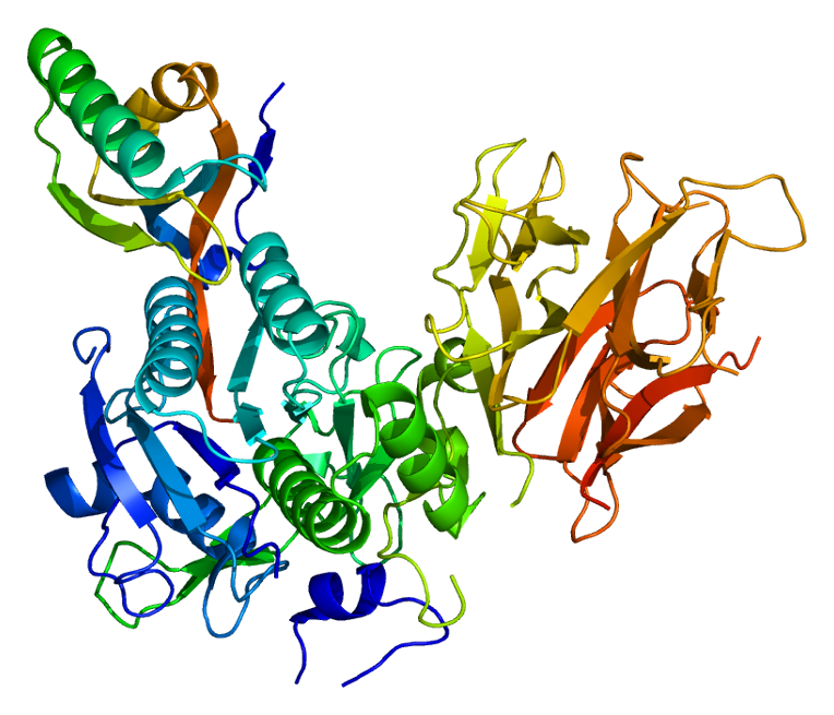 Structure of the PCSK9 protein. Based on PyMOL rendering of PDB 2p4e.